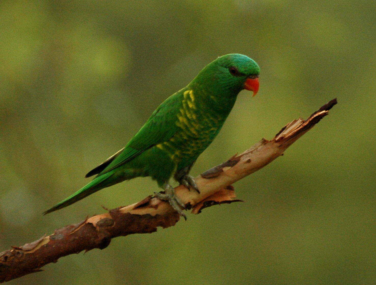 Scaly-breasted Lorikeet Trichoglossus chlorolepidotus